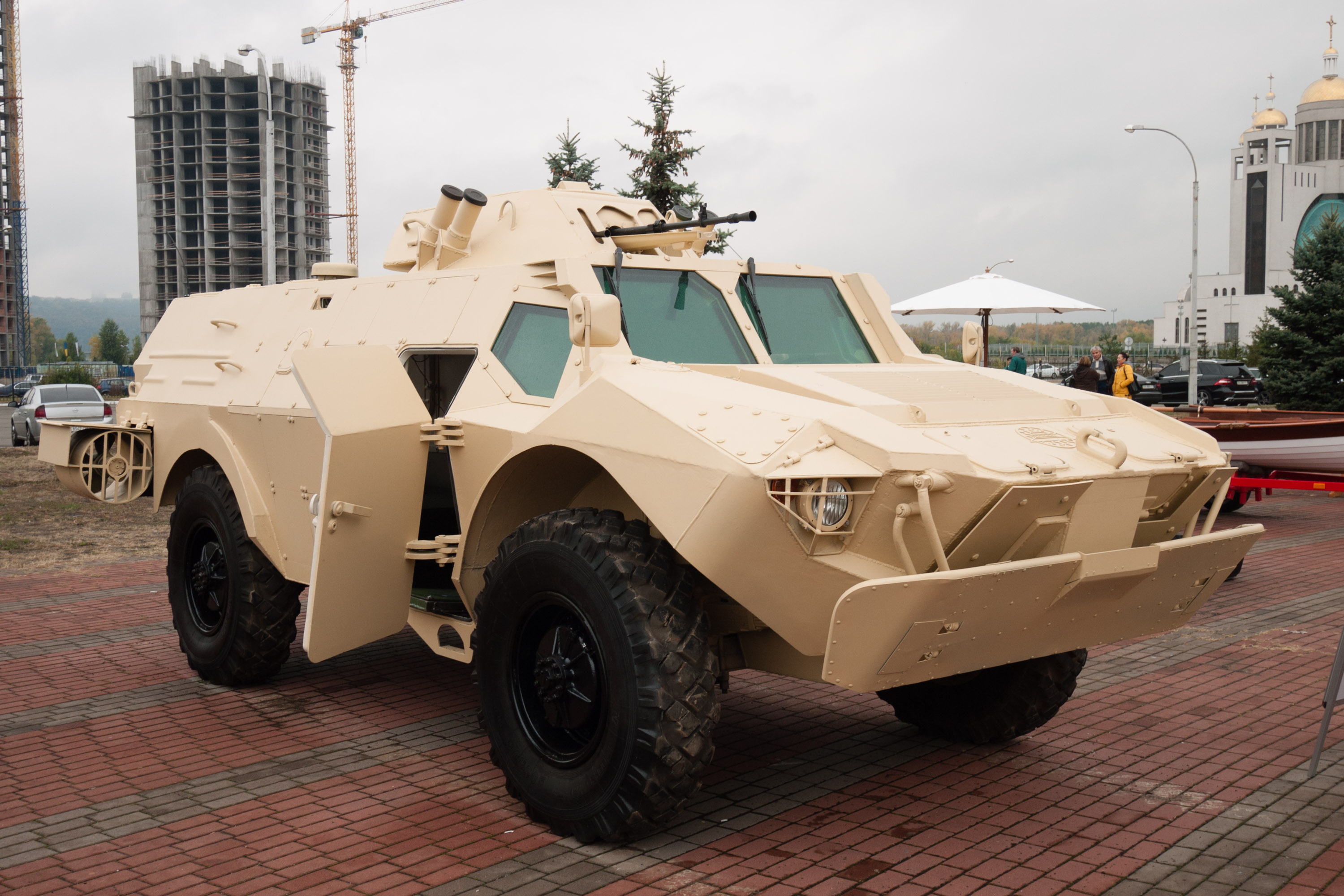 BKM Azov view